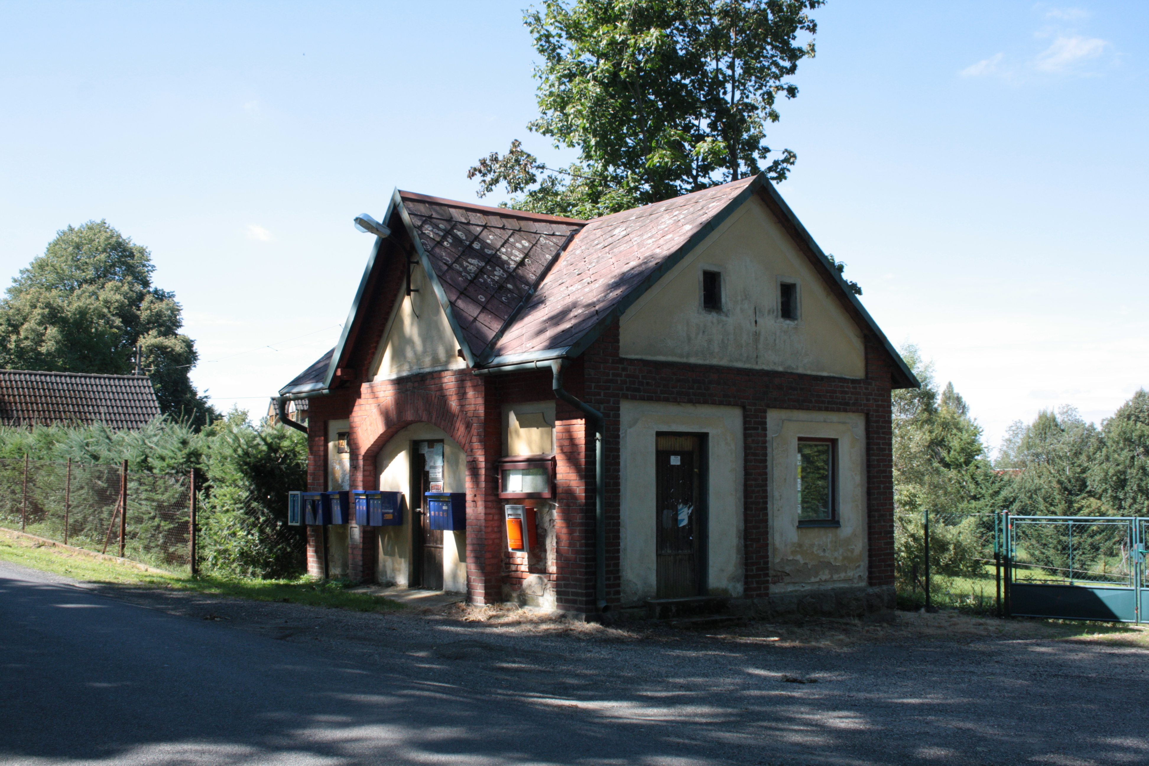 This photograph was taken with a DSLR from WMCZ's Camera grant. Čekárna v Přebytku.